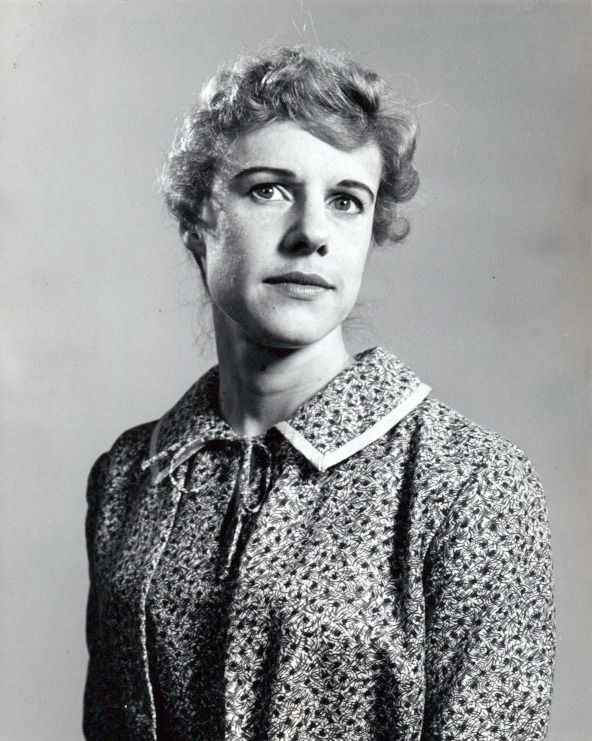 Frances Sternhagen original theater photo (1962)